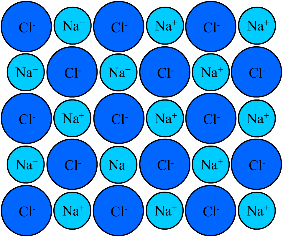 The crystal structure of NaCl (table salt). Illustrates the structure of ionic compounds. Made with Flash 5.